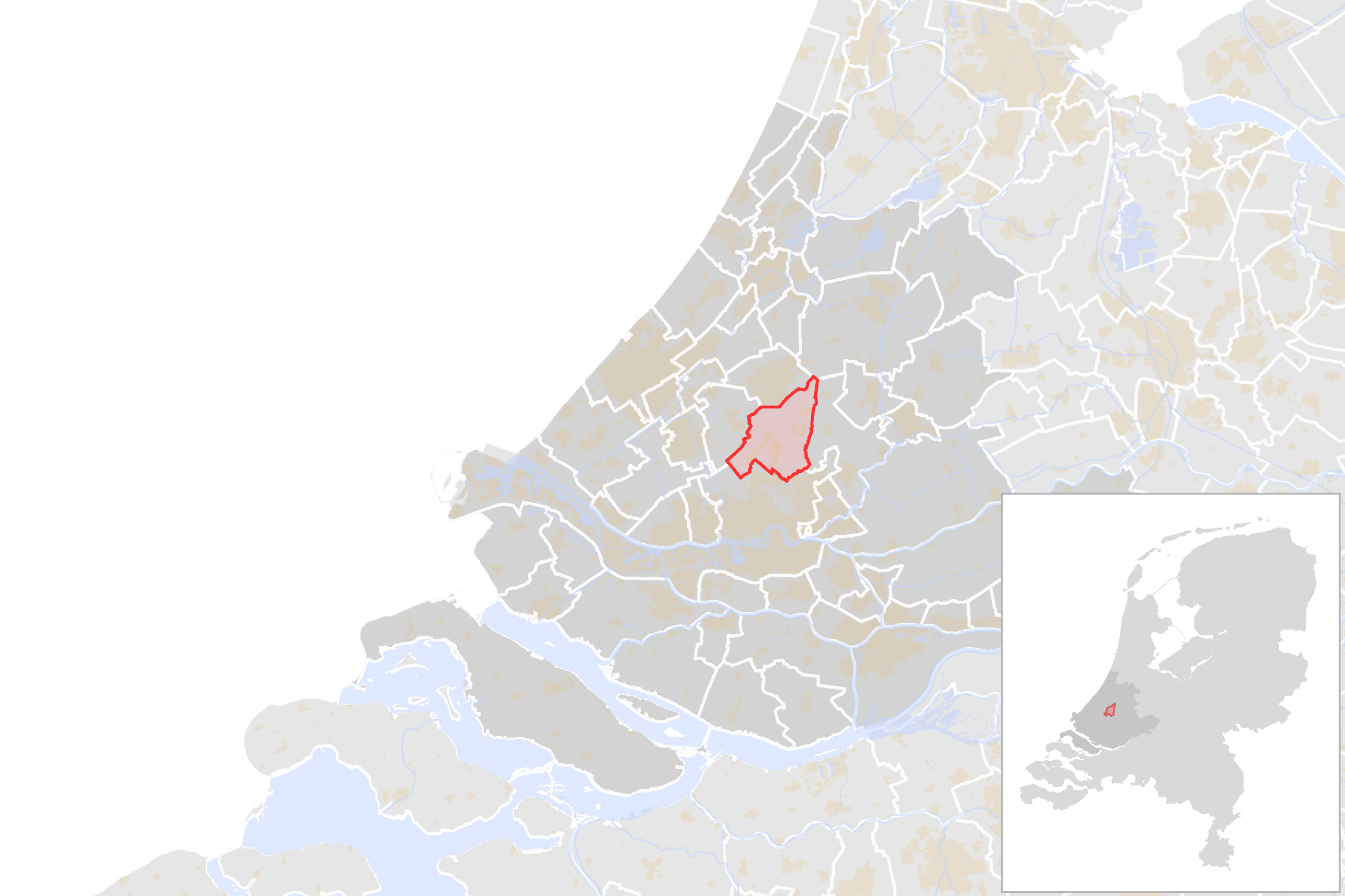 Locator map showing municipality boundary of one of the 390 Dutch municipalities (as of 2016)